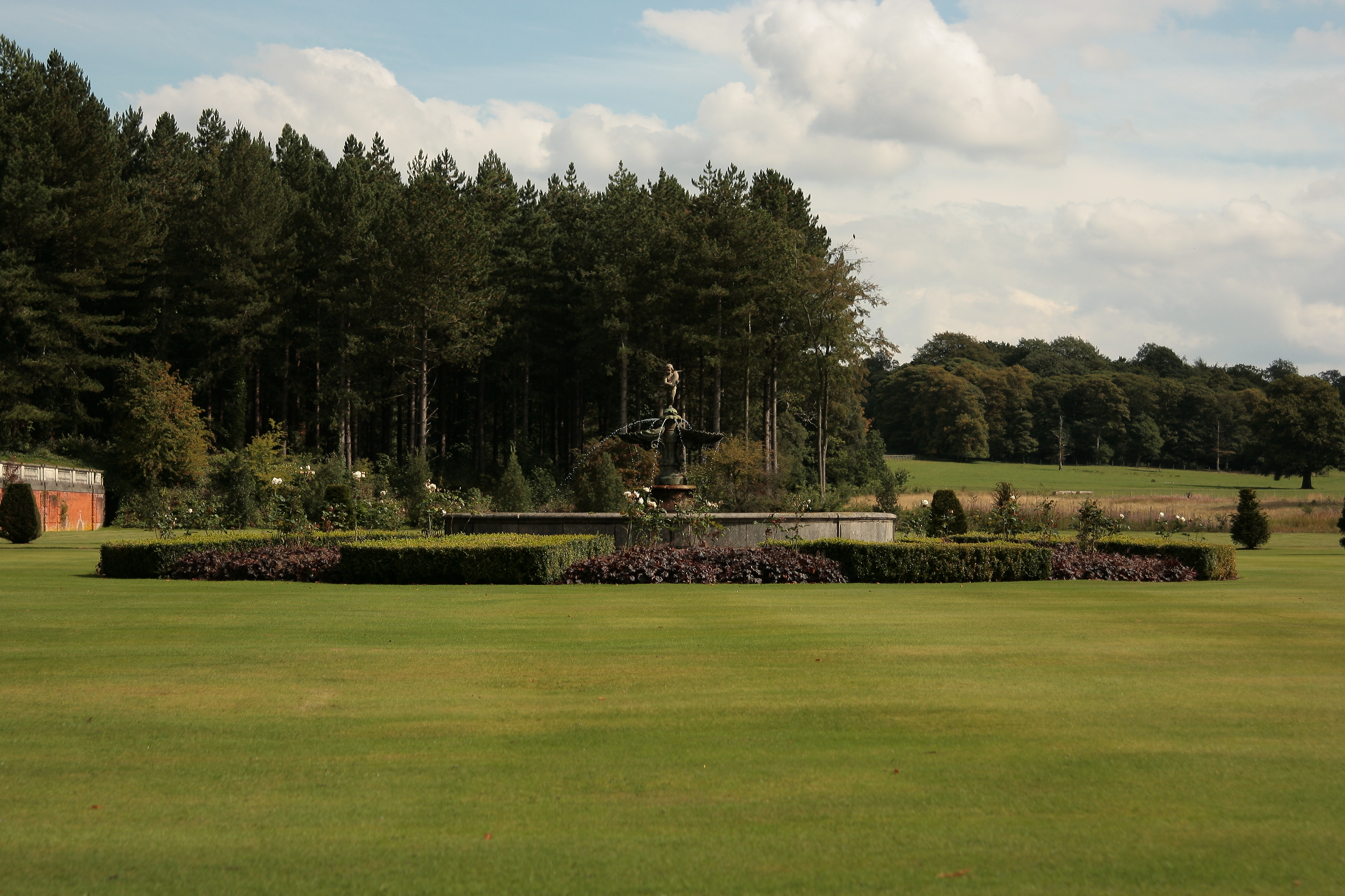 Knowsley Hall, Merseyside.